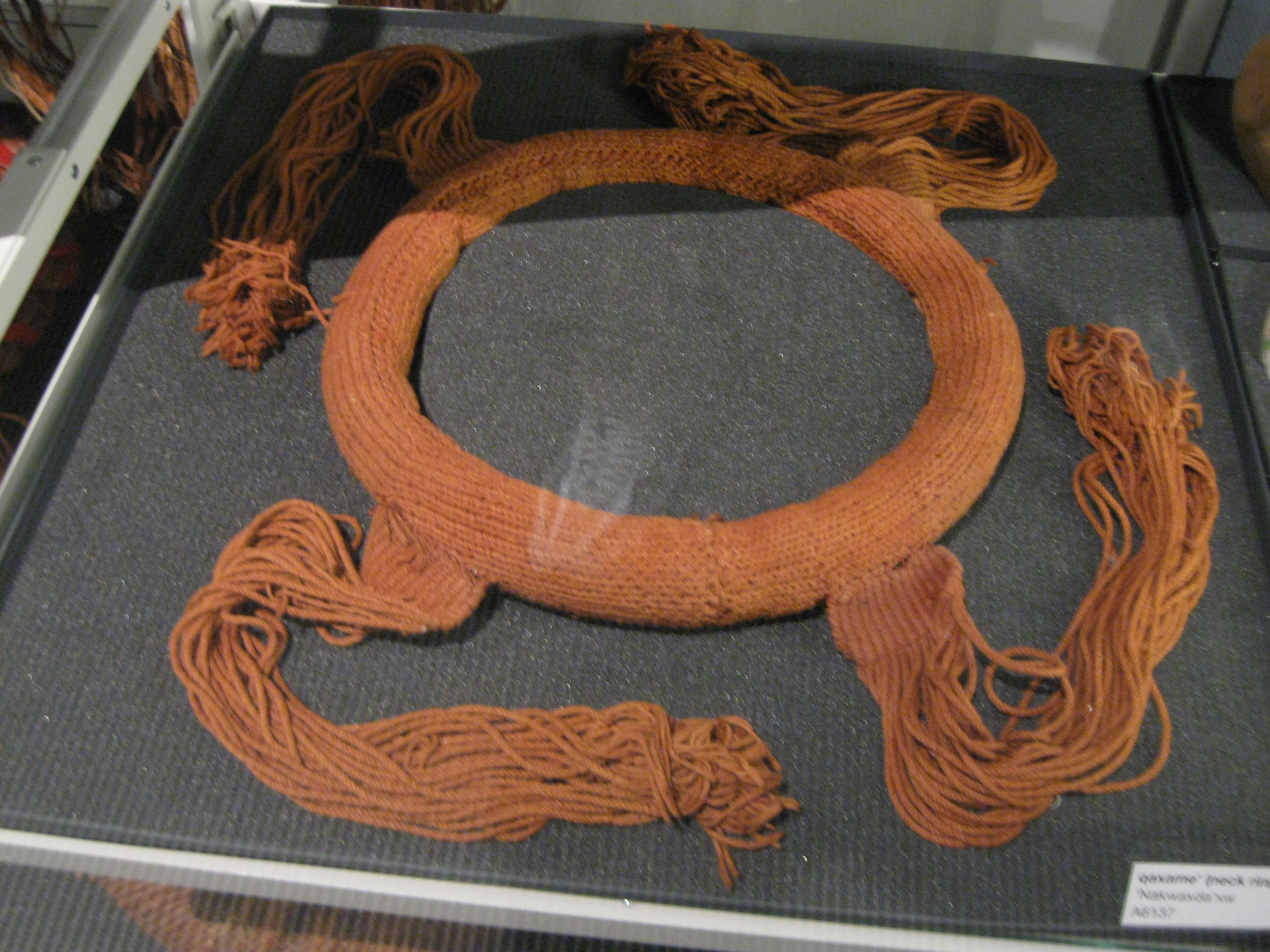 The museum label refers to this object as a 'Nakwaxda'xw native peoples' neck ring. This object is today located in the collection of the UBC Museum of Anthropology in Vancouver, Canada and its catalogue number is A6137.